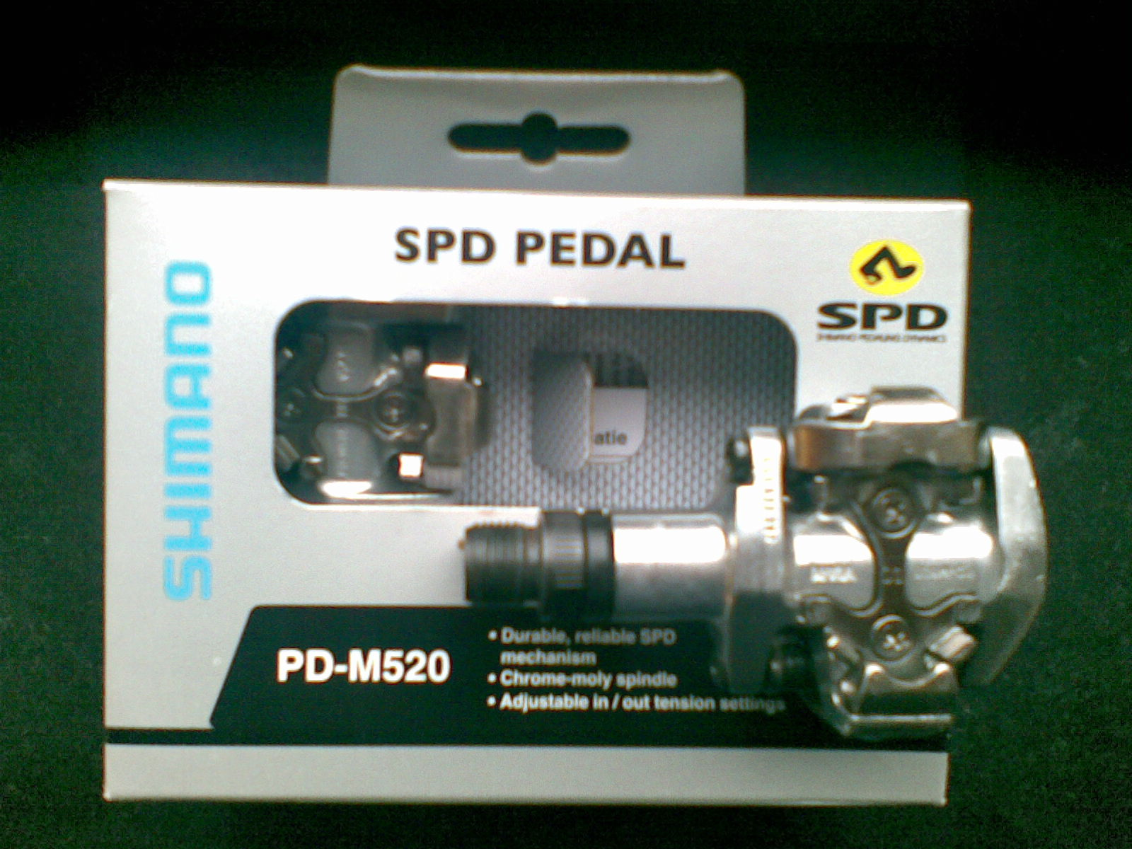 spd pedal